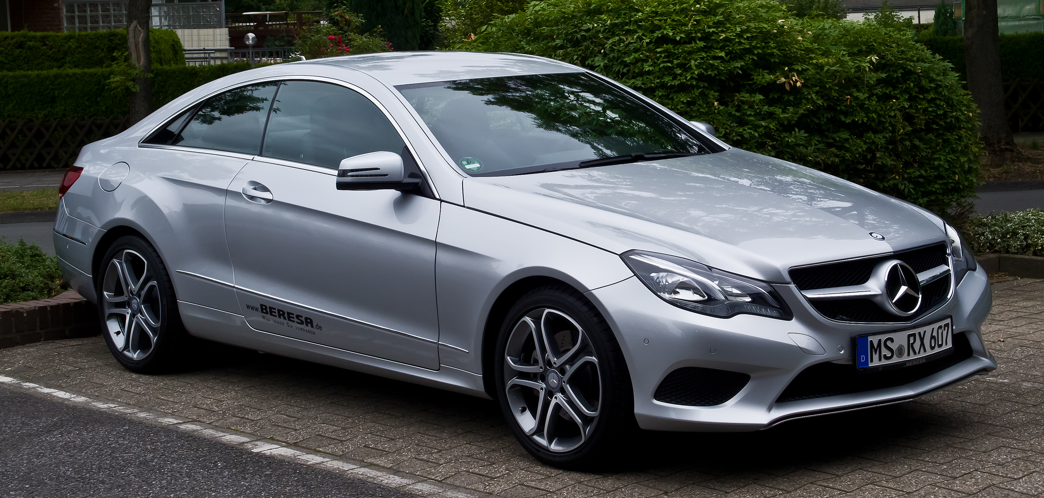 Mercedes-Benz E 200 Coupé Sport-Paket (C 207, Facelift)